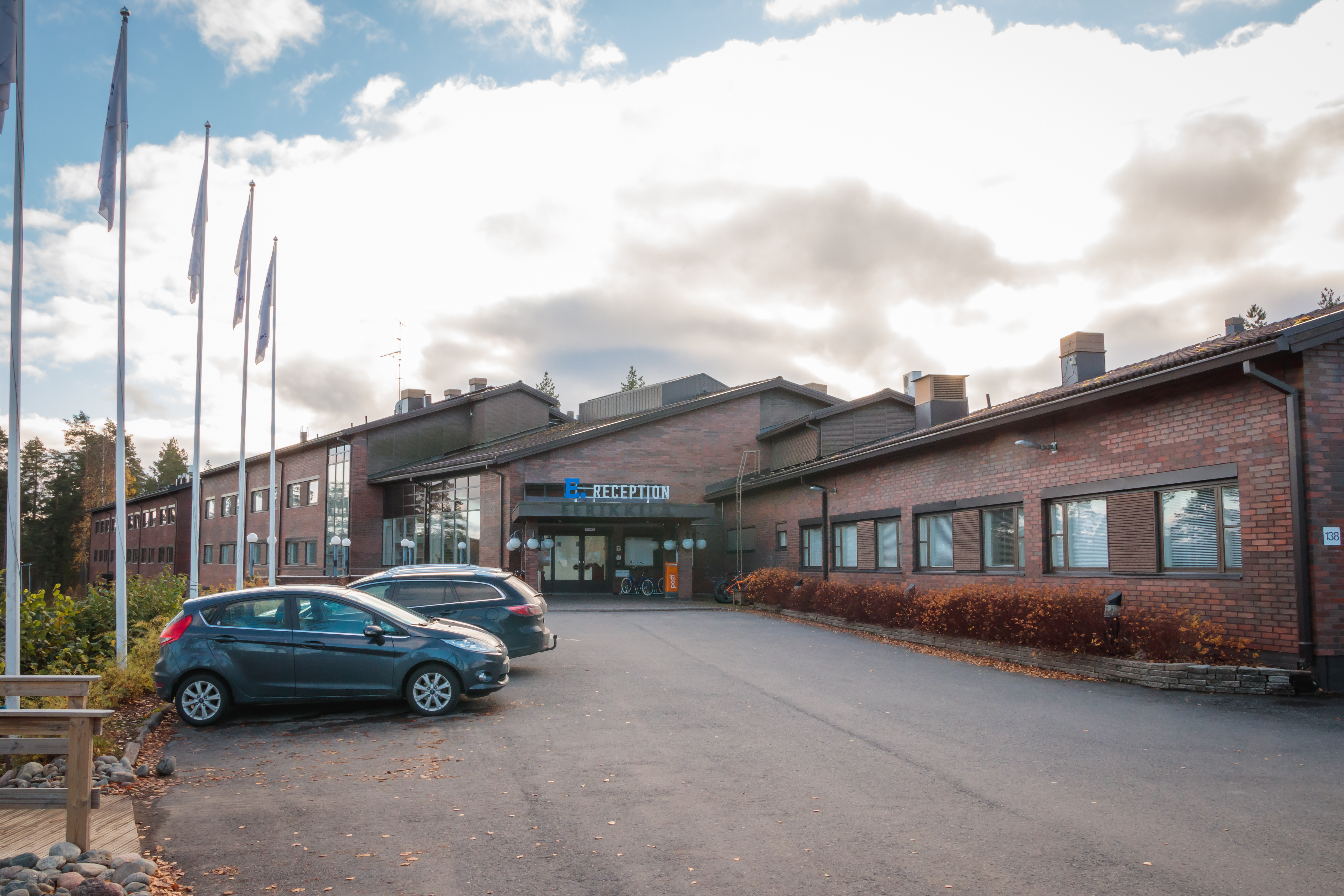 Eerikilä Sports Academy, Tammela, Finland.